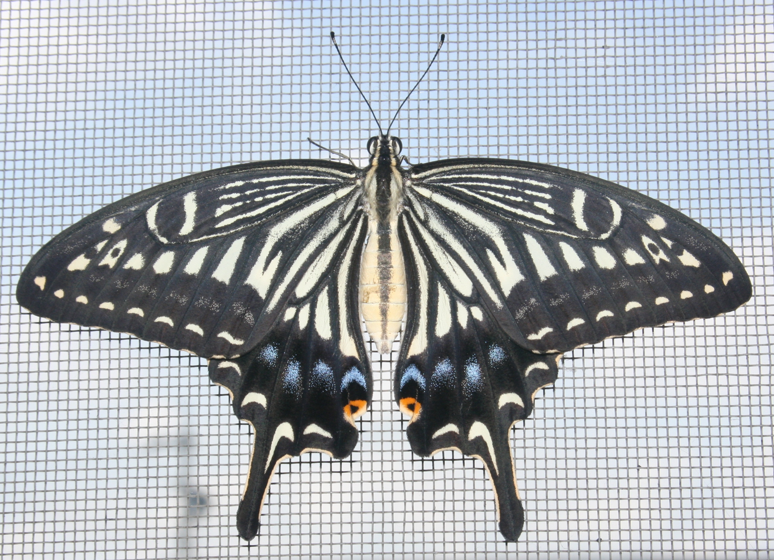 Papilio xuthus, female